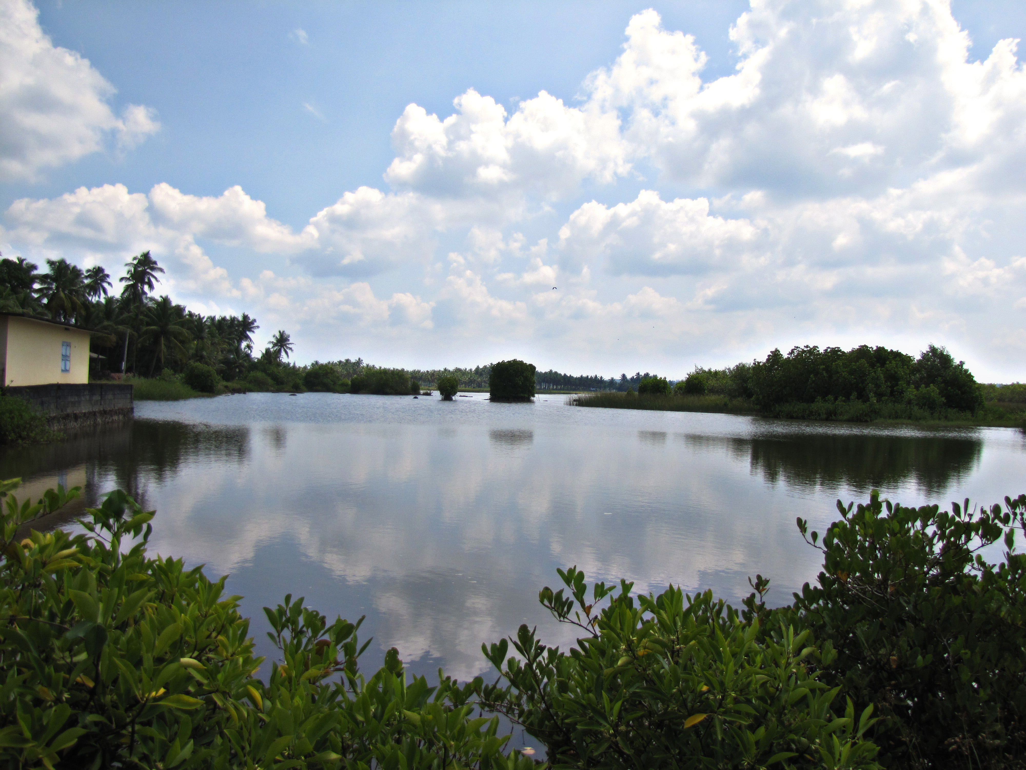 Ezhome Moola a place near Pazangadi, in Kannur